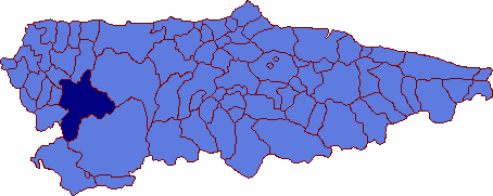 Allande is a region in Asturias, Spain.